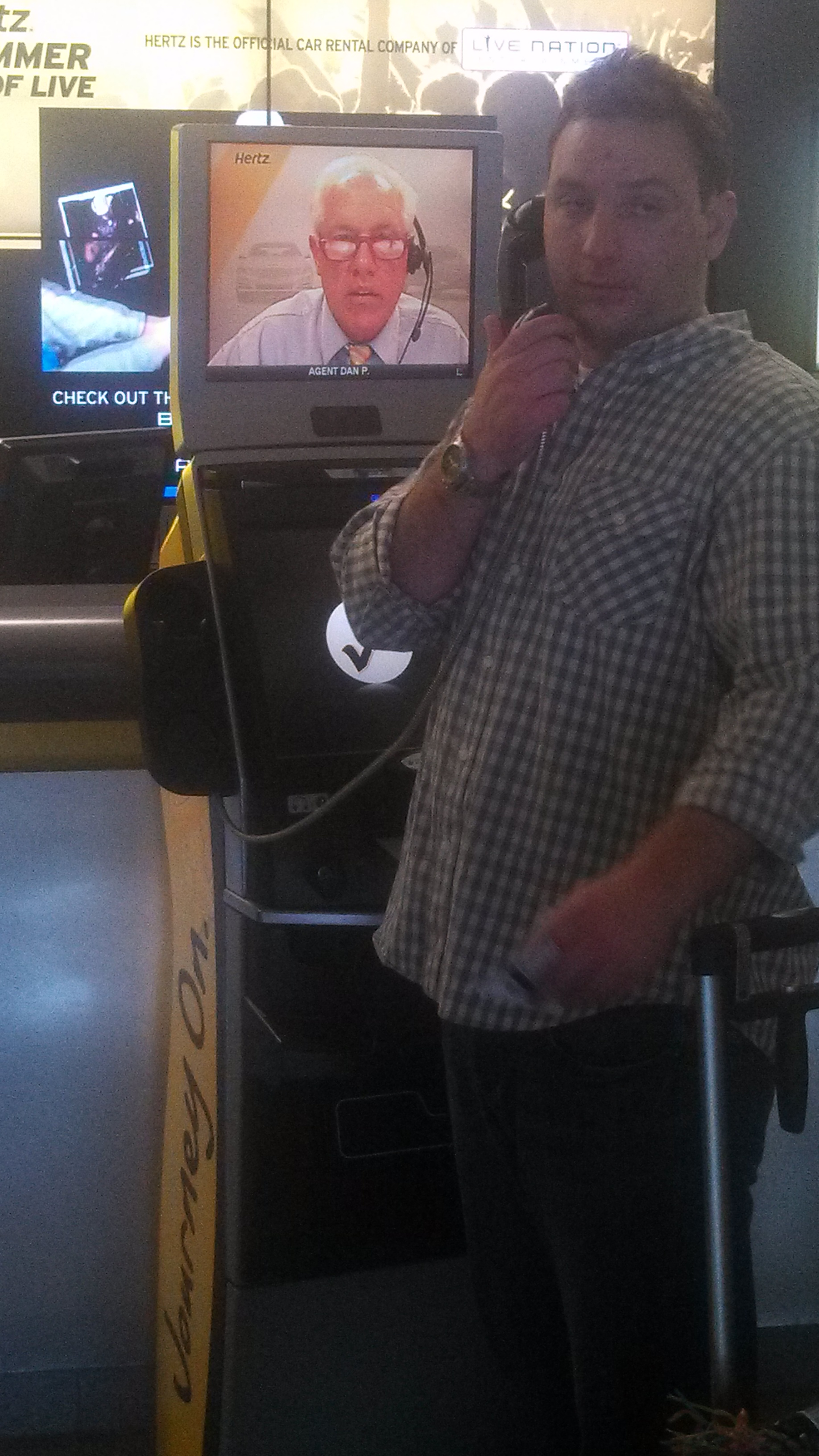 Hertz Kiosk